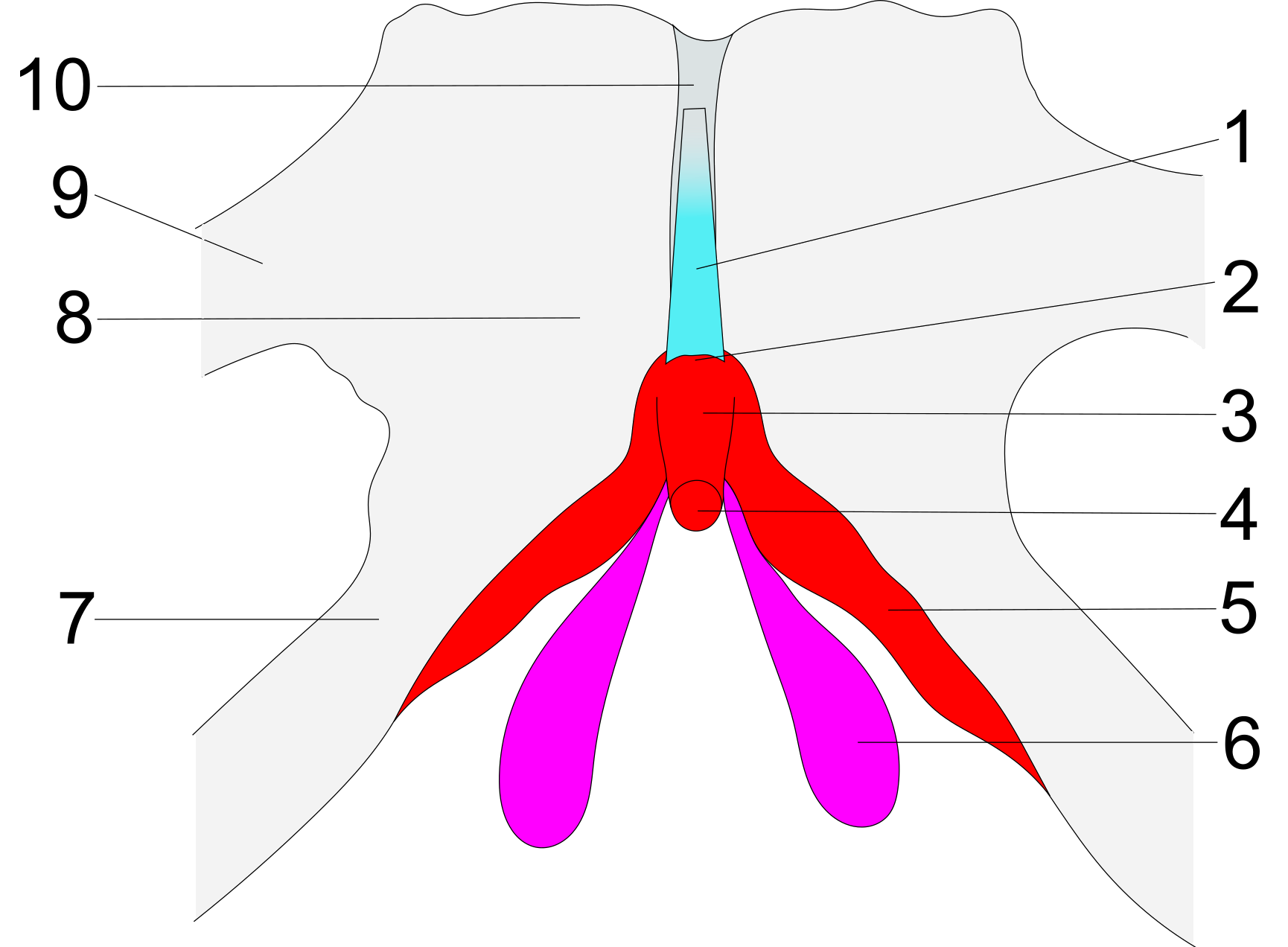 Female erectile organs: 1. Suspensory ligament of clitoris; 2. Angle (elbow) of clitoris; 3. Body of clitoris; 4. Glans of clitoris; 5 - Crus of clitoris; 6 - Bulb of vestibule; 7. Ischiopubic ramus; 8. Pubic bone; 9. ; 10. Pubic symphysis